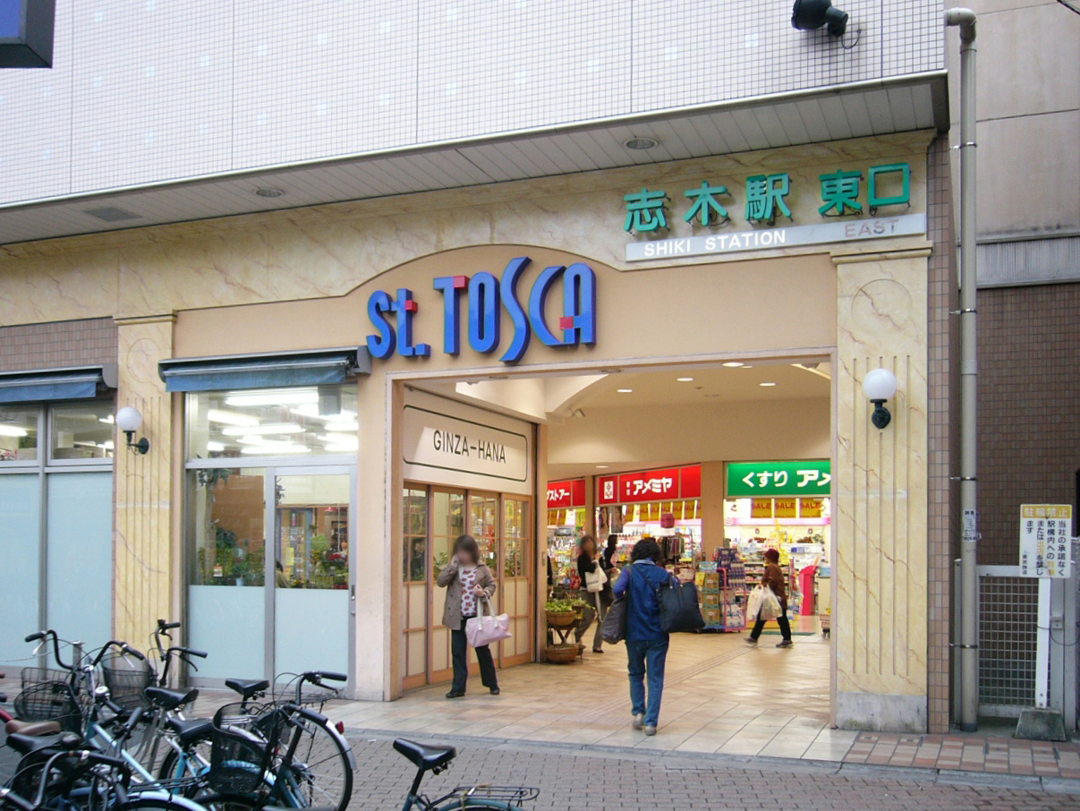 The east entrance to Shiki Station on the Tobu Tojo Line